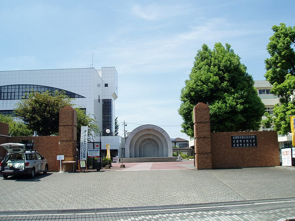 The main gate of Musashino Gakuin University and Musashino Junior College, located in Sayama, Saitama Pref., Japan.